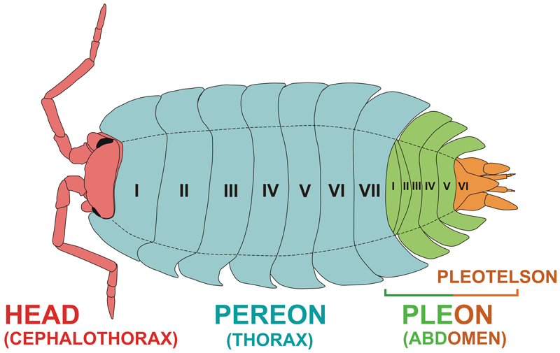 A woodlouse (Oniscidea) – the main body regions.